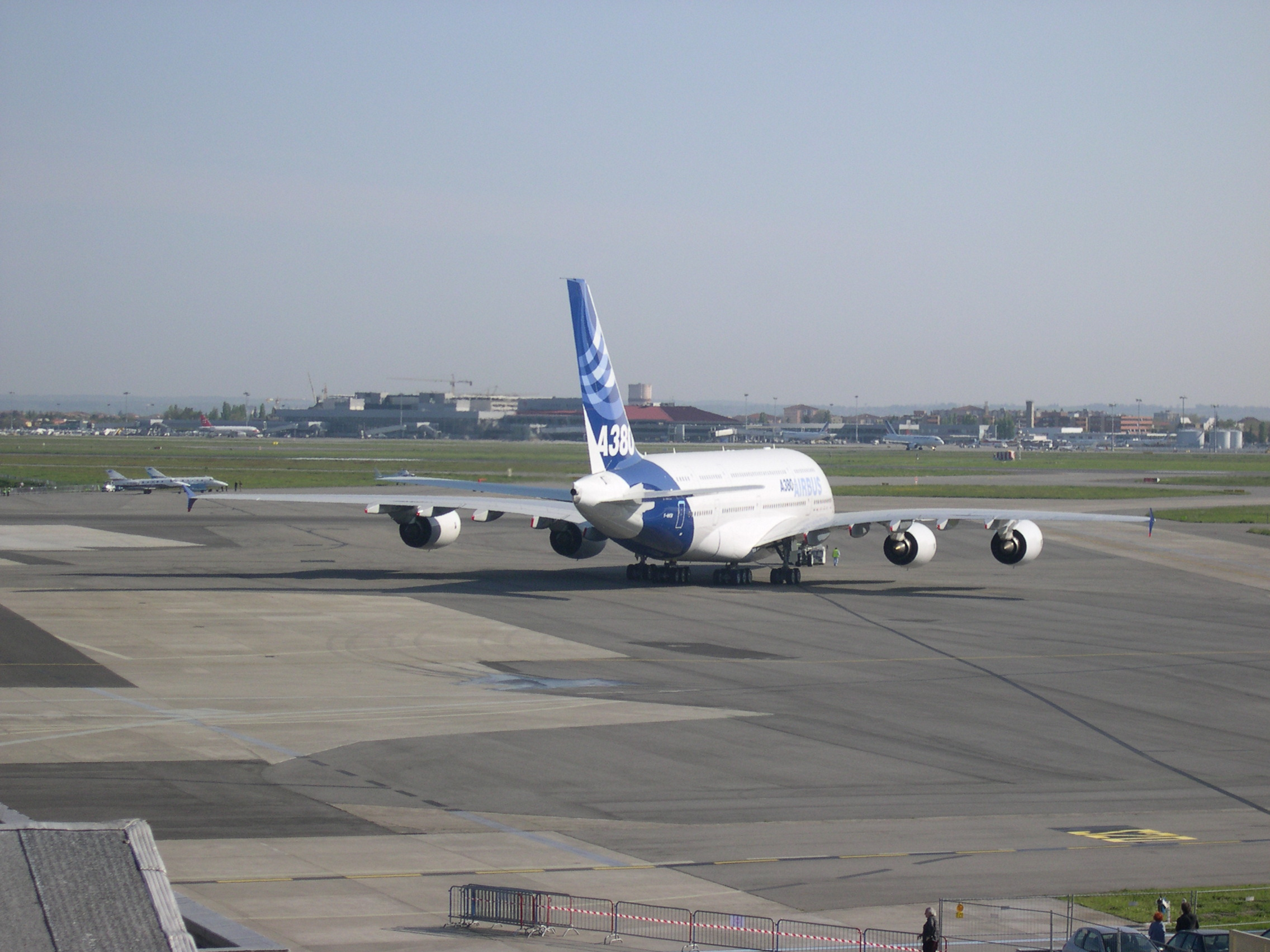 Airbus A380 first takeoff from Toulouse-Blagnac airport. The plane leaves the parking and goes towards the runway. Image taken from 3rd floor